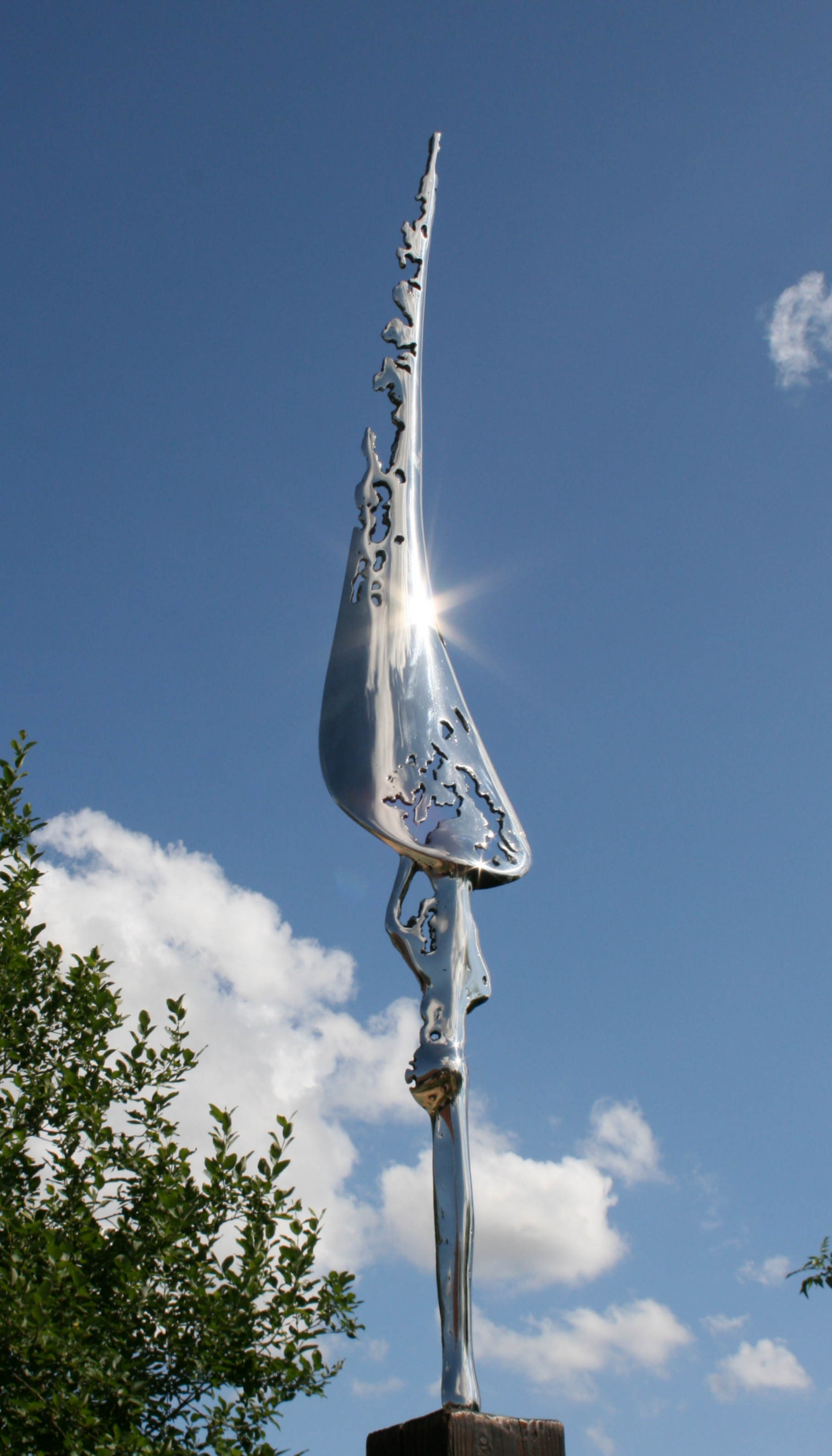 Salvation Sculpture - Stainless Steel